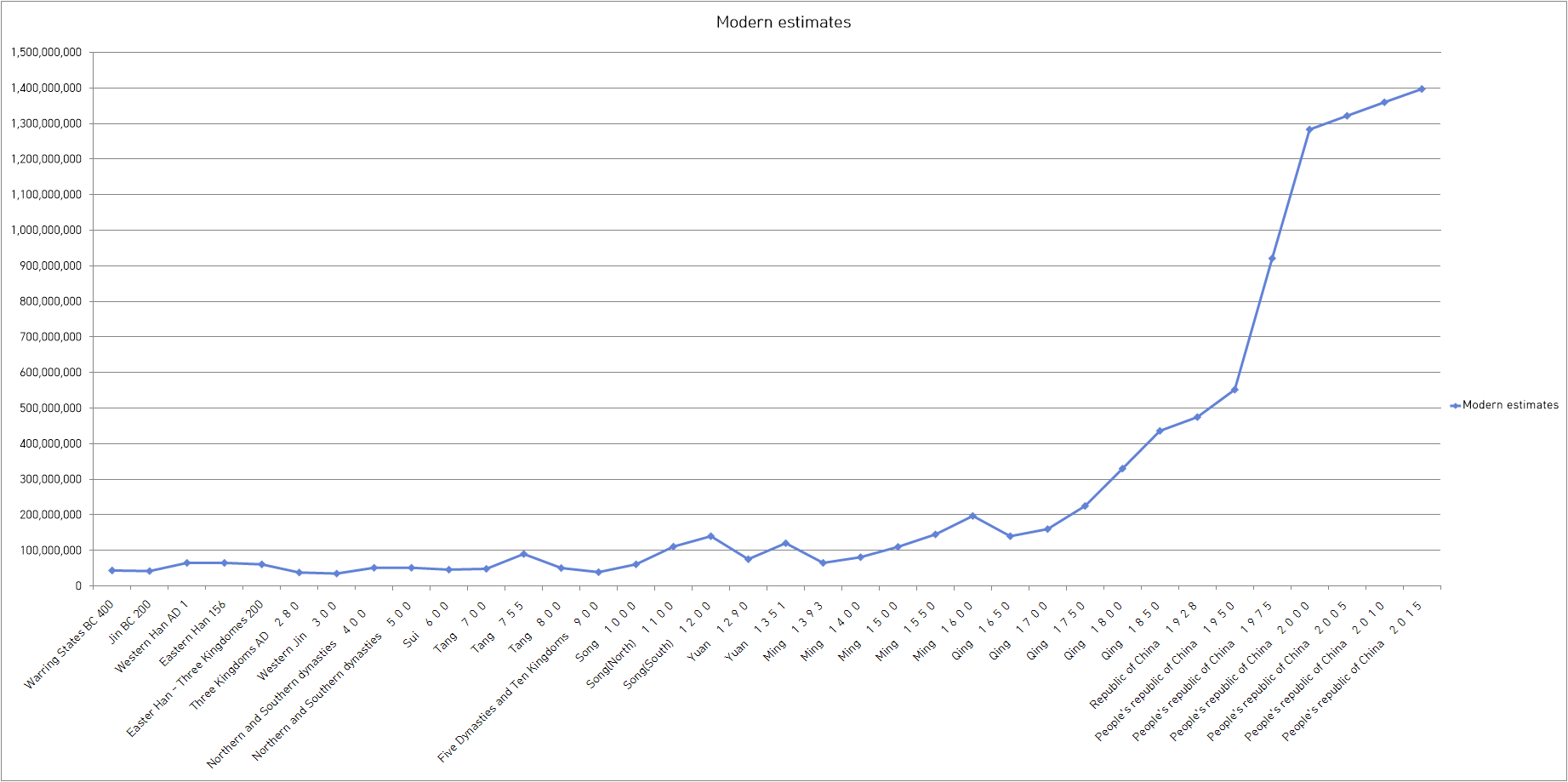 China population BC 400 to 2015